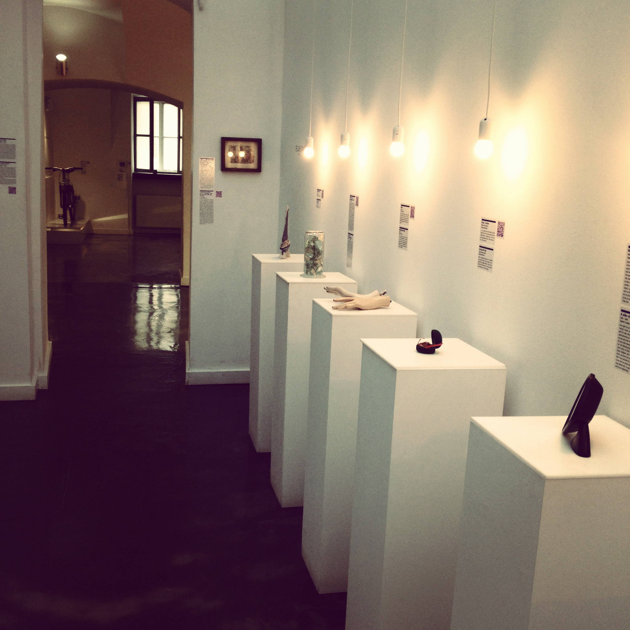 Exhibits at the Museum of Broken Relationships, Zagreb, Croatia.